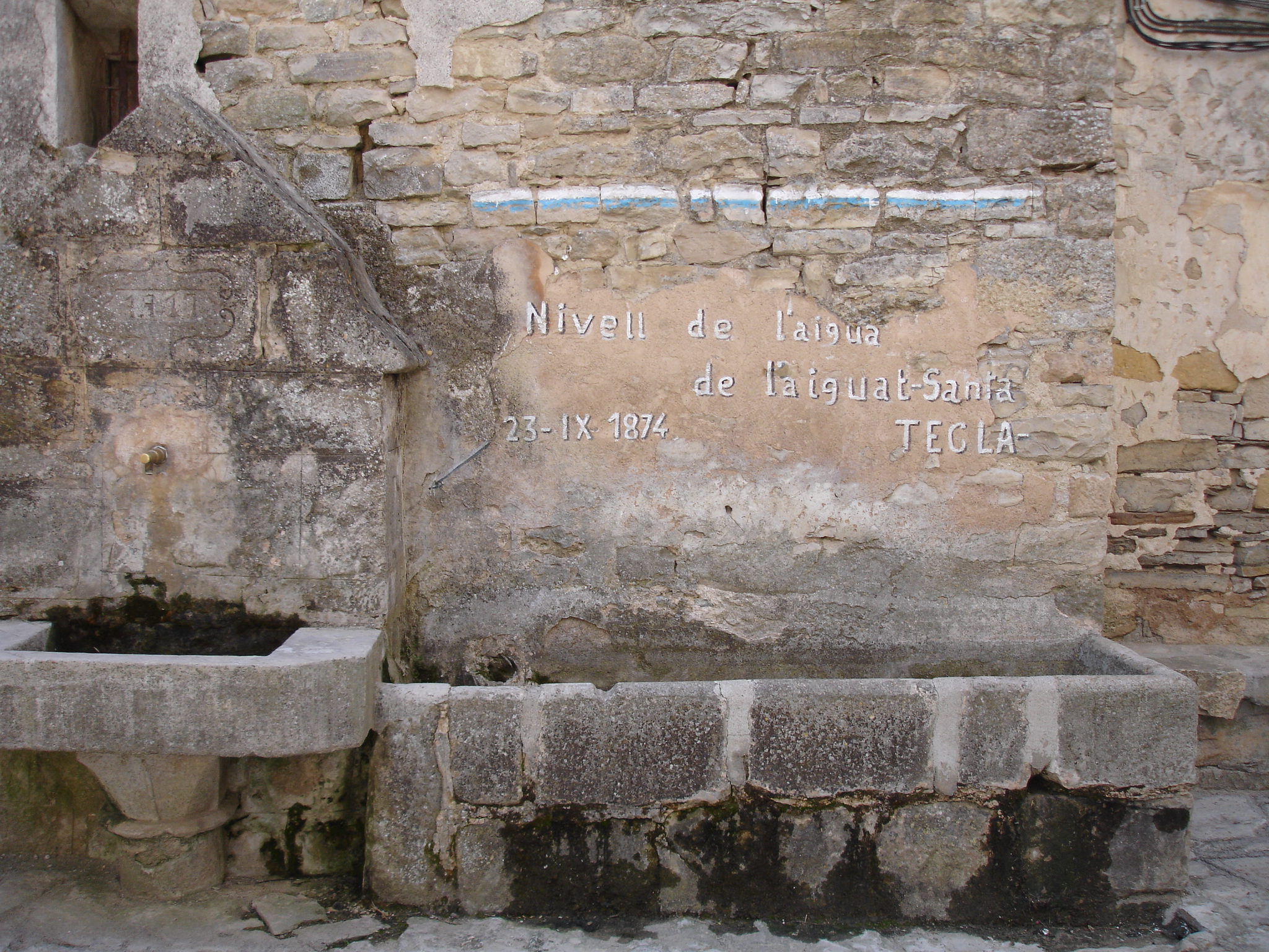 Fountain in Conesa, Catalonia, Spain.